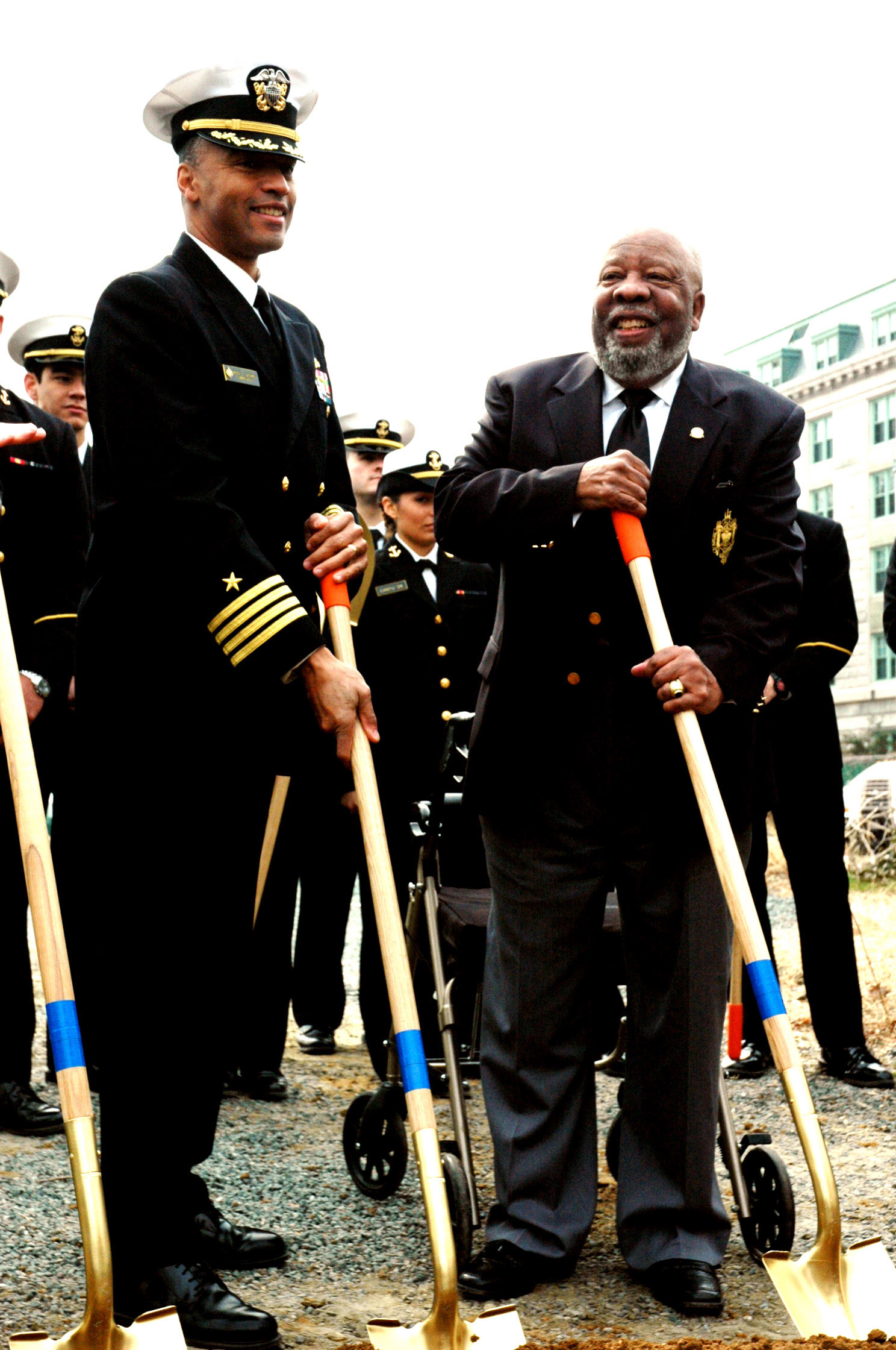 Annapolis, Md. (March 25, 2006) - The first African American Commandant of the Naval Academy, Capt. Bruce Grooms stands with Retired Lt. Cmdr. Wesley Brown at the groundbreaking ceremony of the Wesley Brown Field House at the U.S. Naval Academy. The 140,000 square-foot complex will sport facilities for physical education, varsity and intramural athletics, club sports and personal fitness, at a cost of about 45 million dollars. The project is scheduled to be complete by 2008. Brown was the first African American graduate of the Academy in 1949.